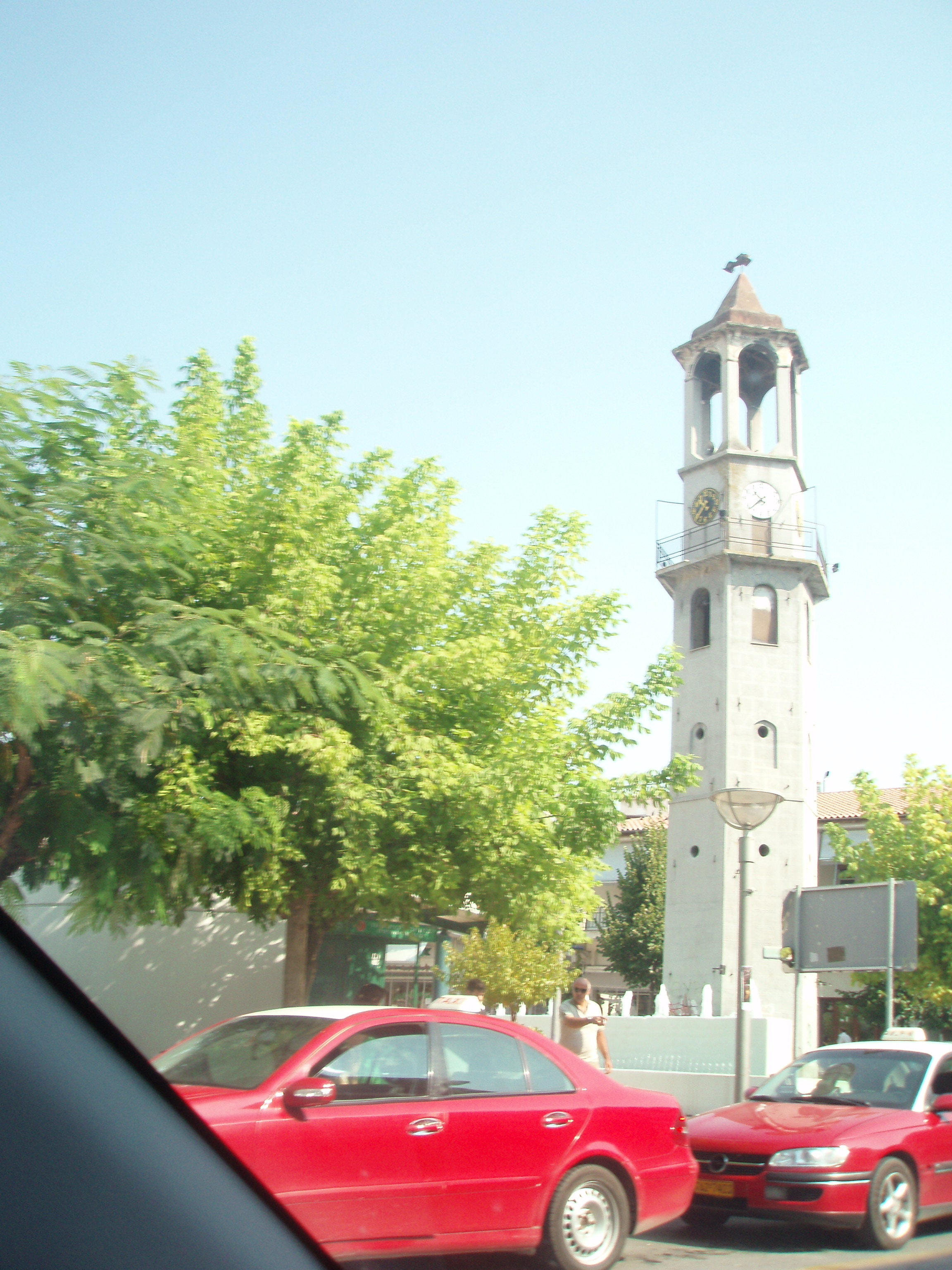 Clock tower in Grevena city, Grevena prefecture, Greece.